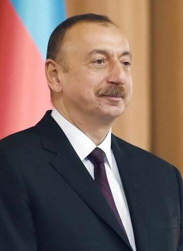 Ilham Aliyev